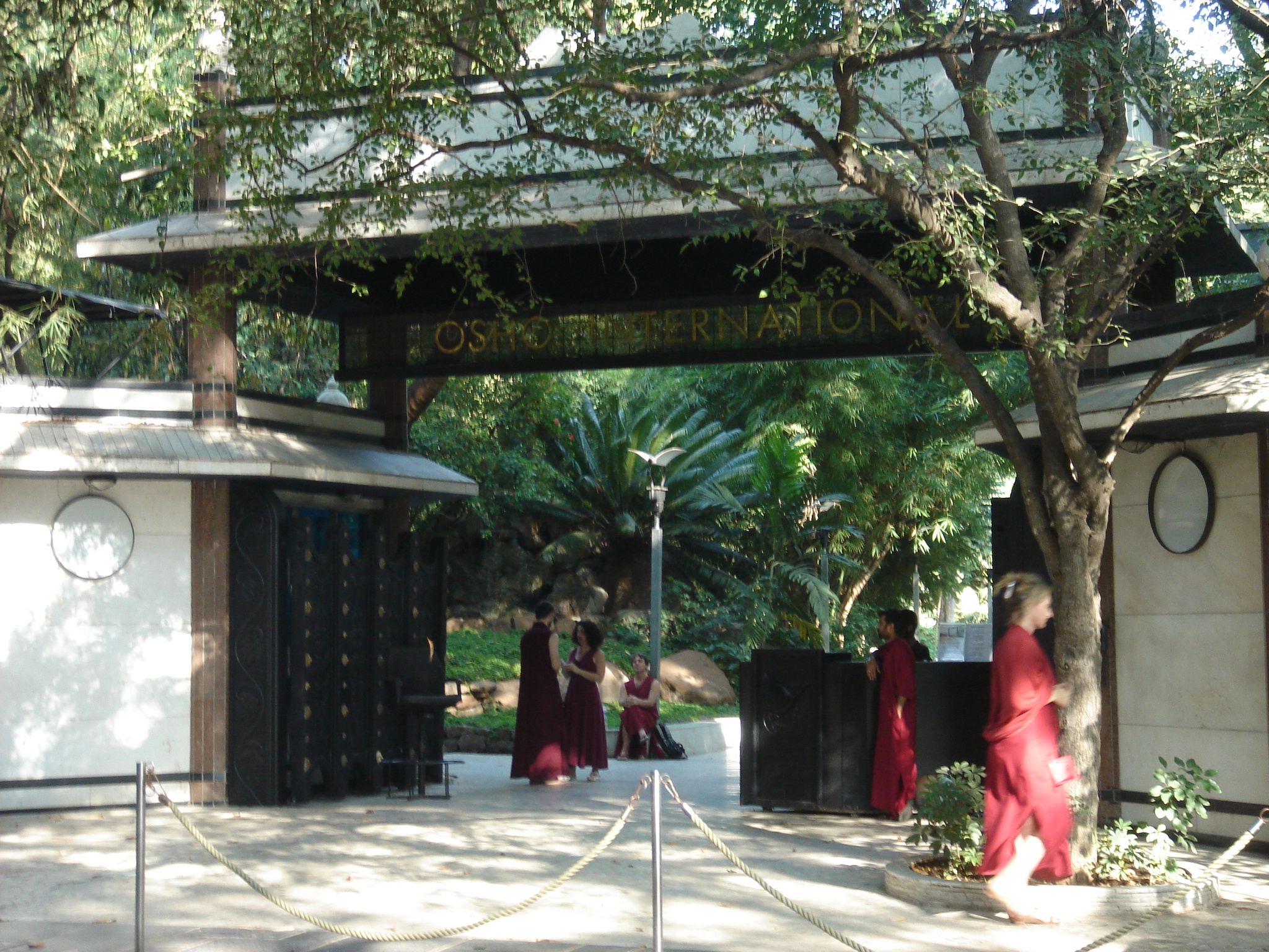 Osho center, Pune, India